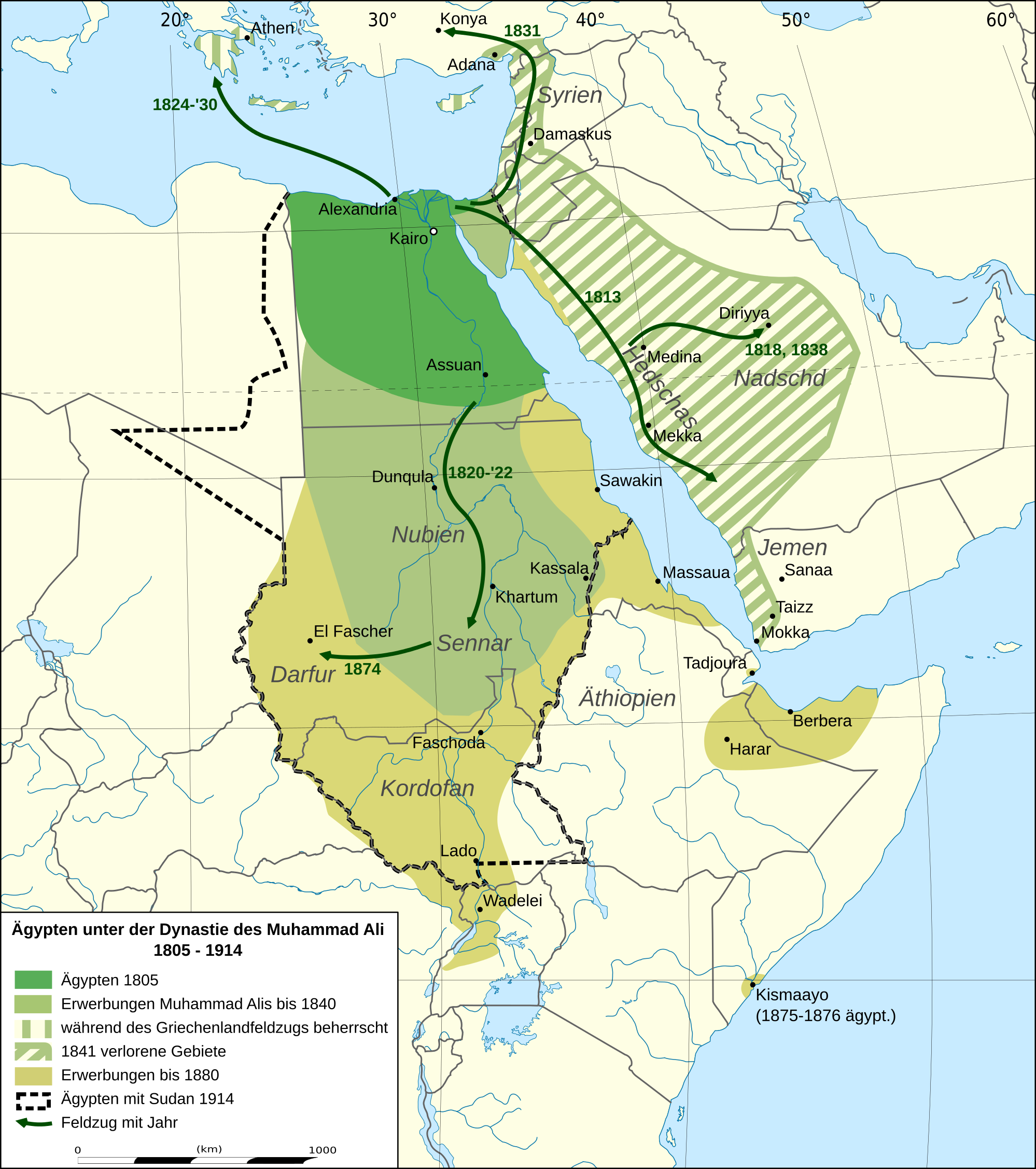 Map of Egypt under Muhammad Ali Dynasty in German.